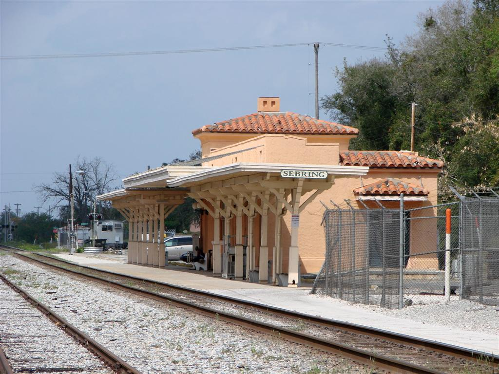 Old Sebring Seaboard Air Line Depot, Sebring, Florida. March 2, 2007.